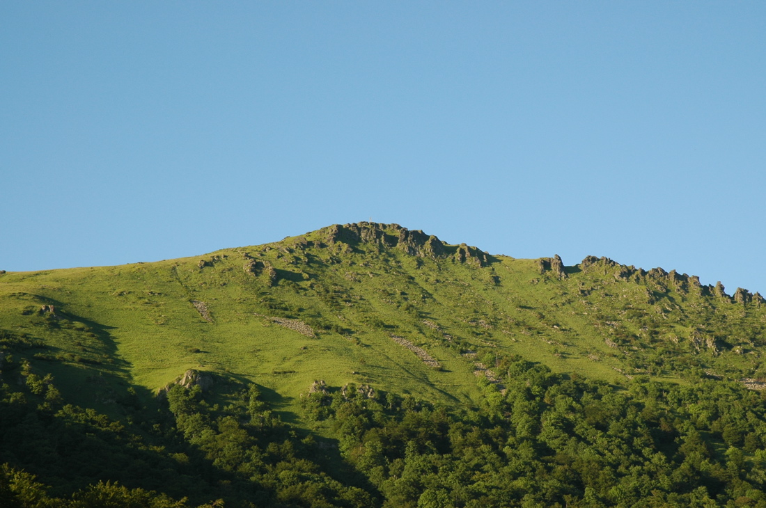 The Pikuy, a view from Shcherbovets